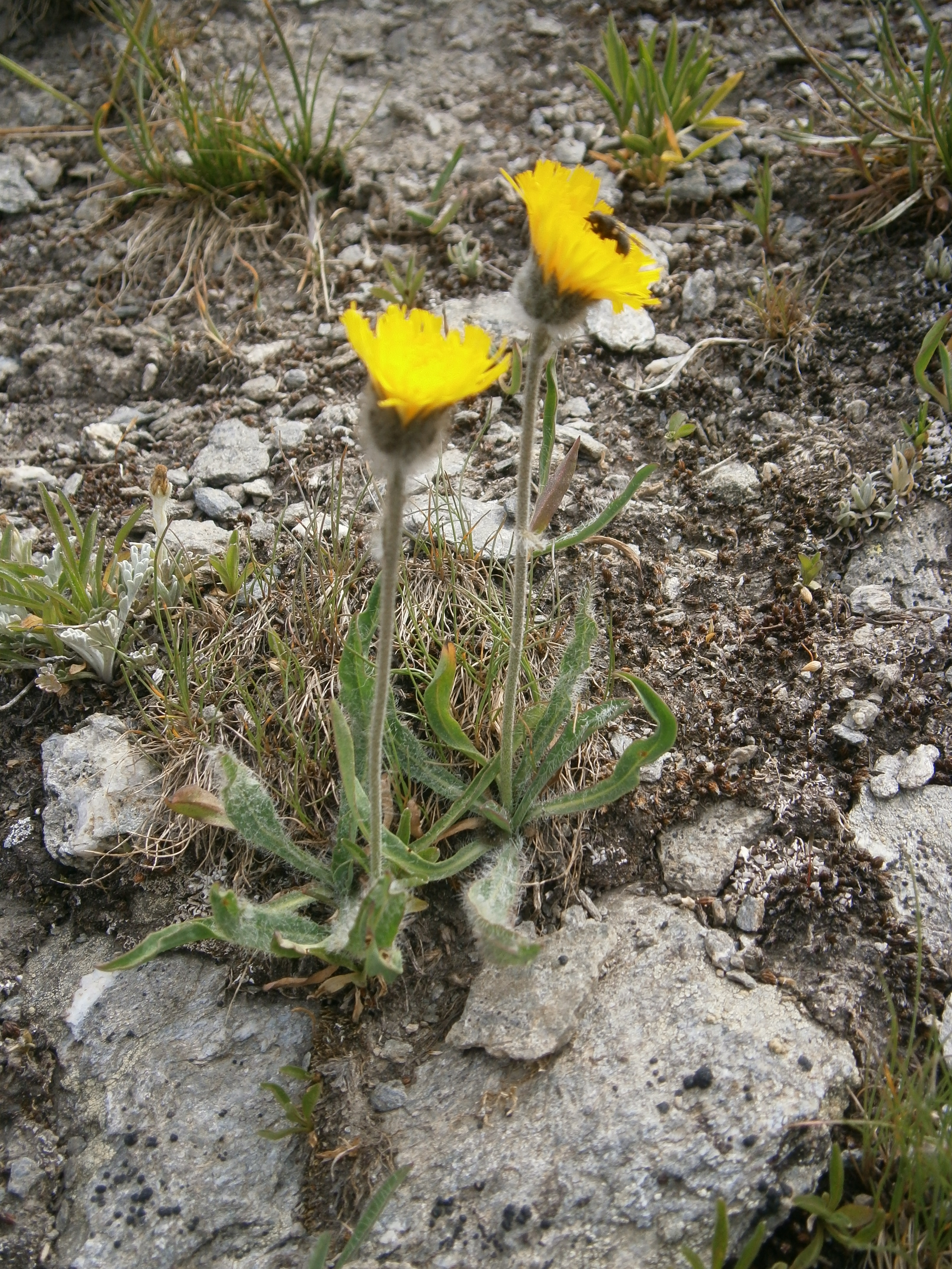 Hieracium alpinum